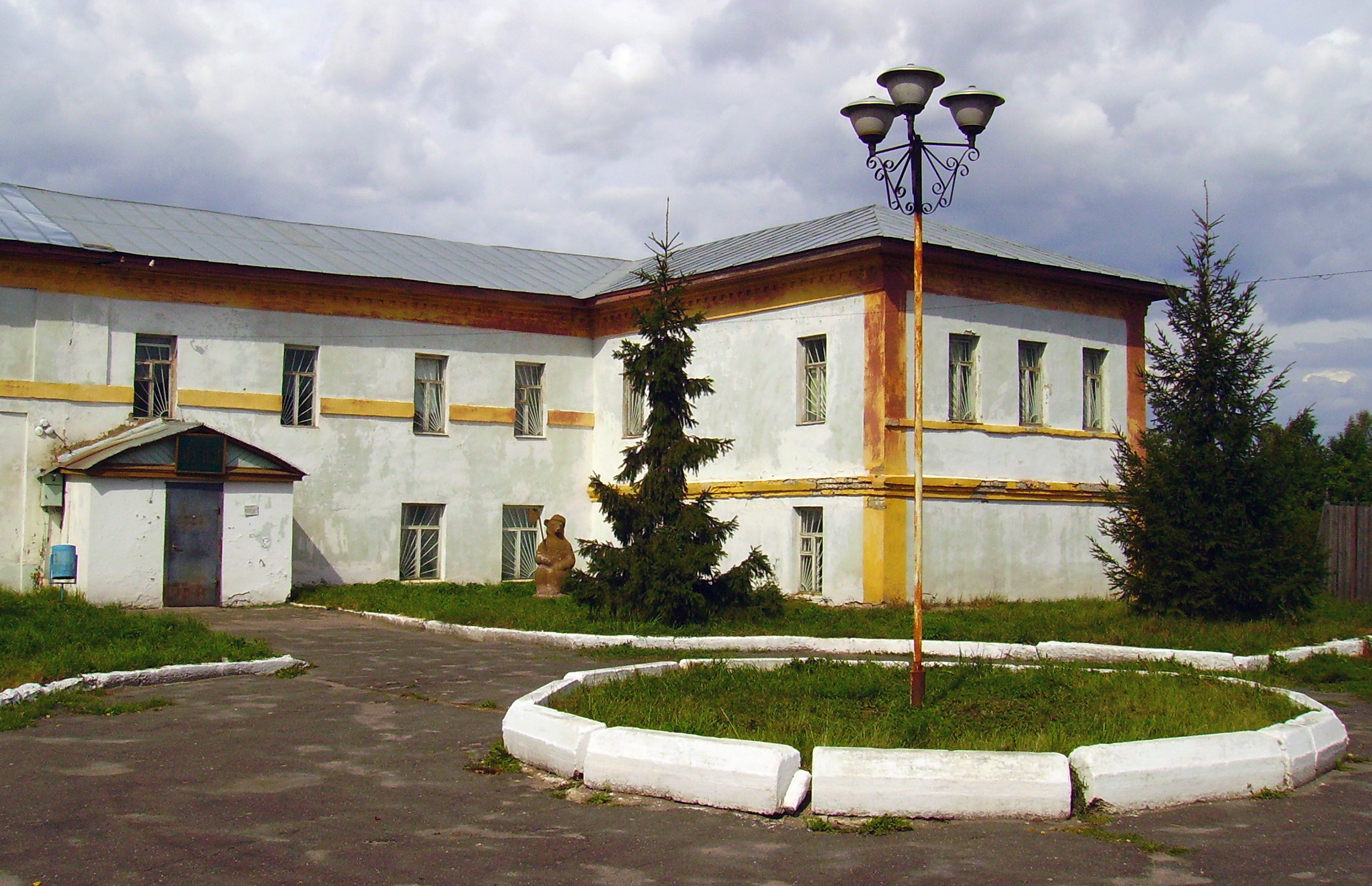 Sergach State Museum named V. Gromov